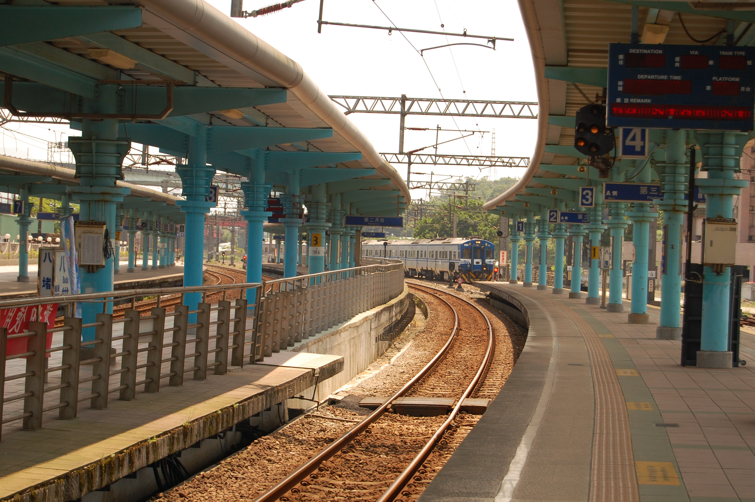 Platform 2 and Platform 3, TRA Badu Station.中文（台灣）: 臺灣鐵路管理局八堵車站第二月臺與第三月臺，遠方一列EMU400型電聯車進站。